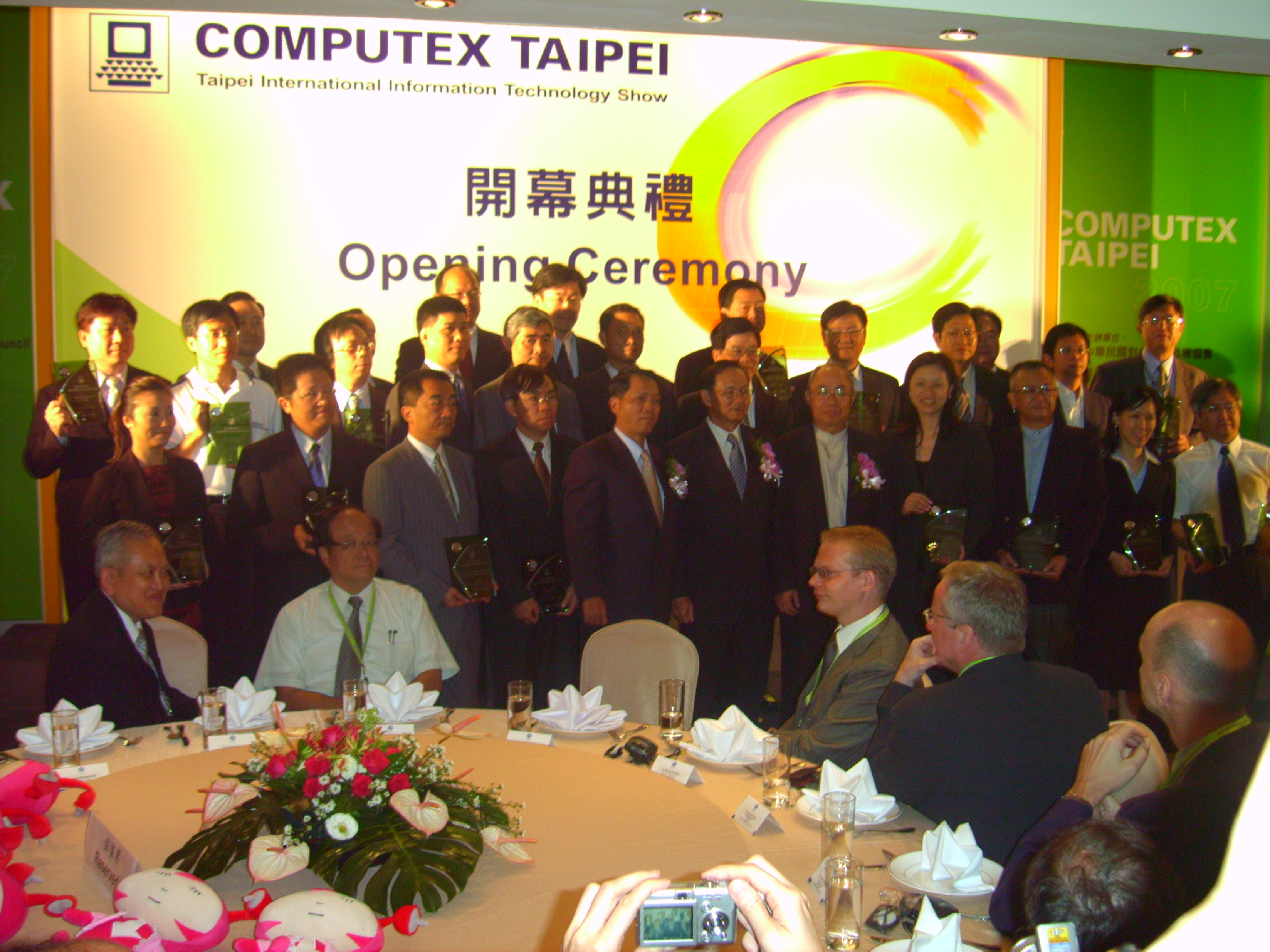 Computex Award Ceremony was held in accommodate with Computex Taipei Opening Ceremony.